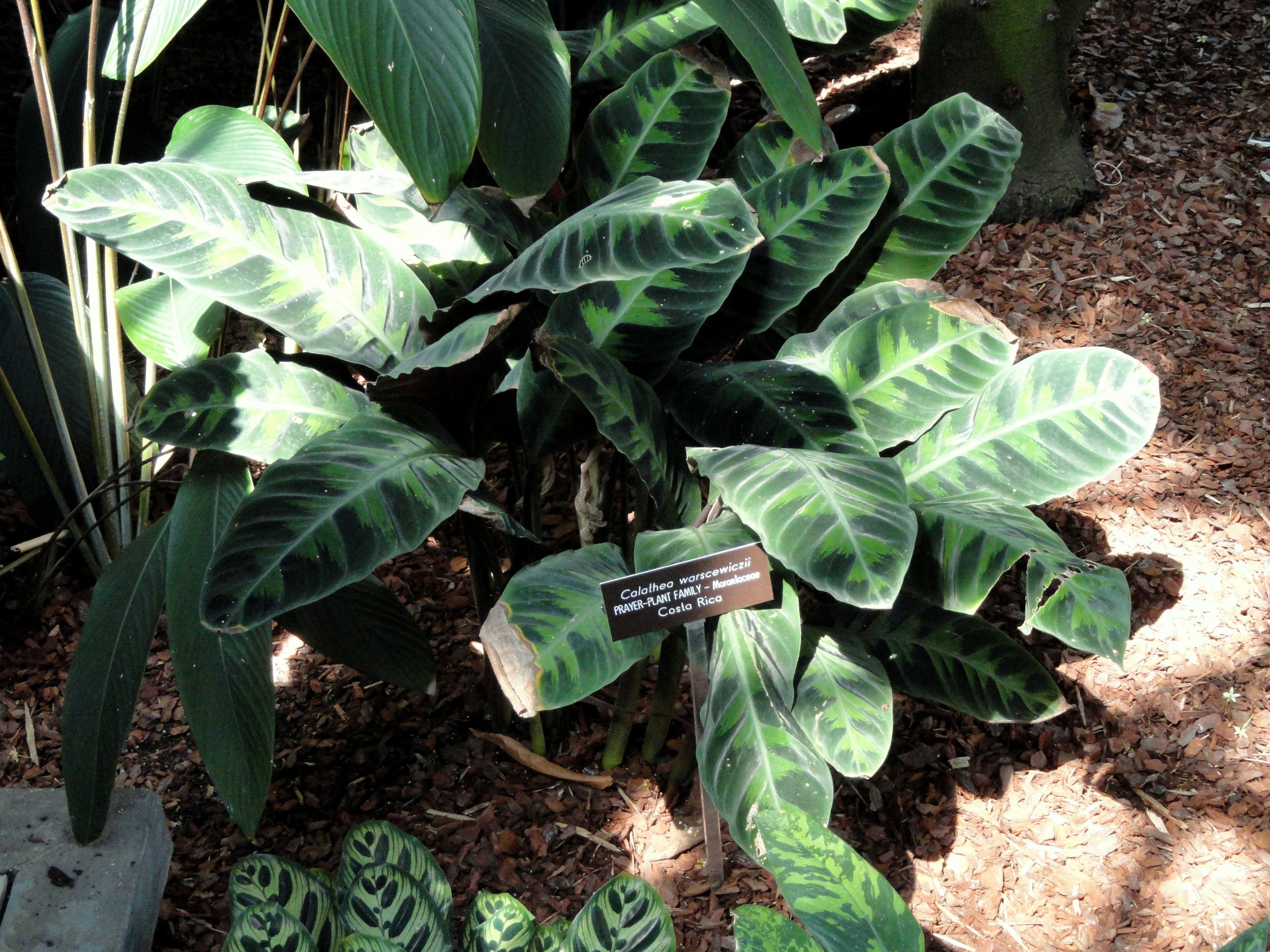 Botanical specimen in the United States Botanic Garden, Washington, DC, USA.